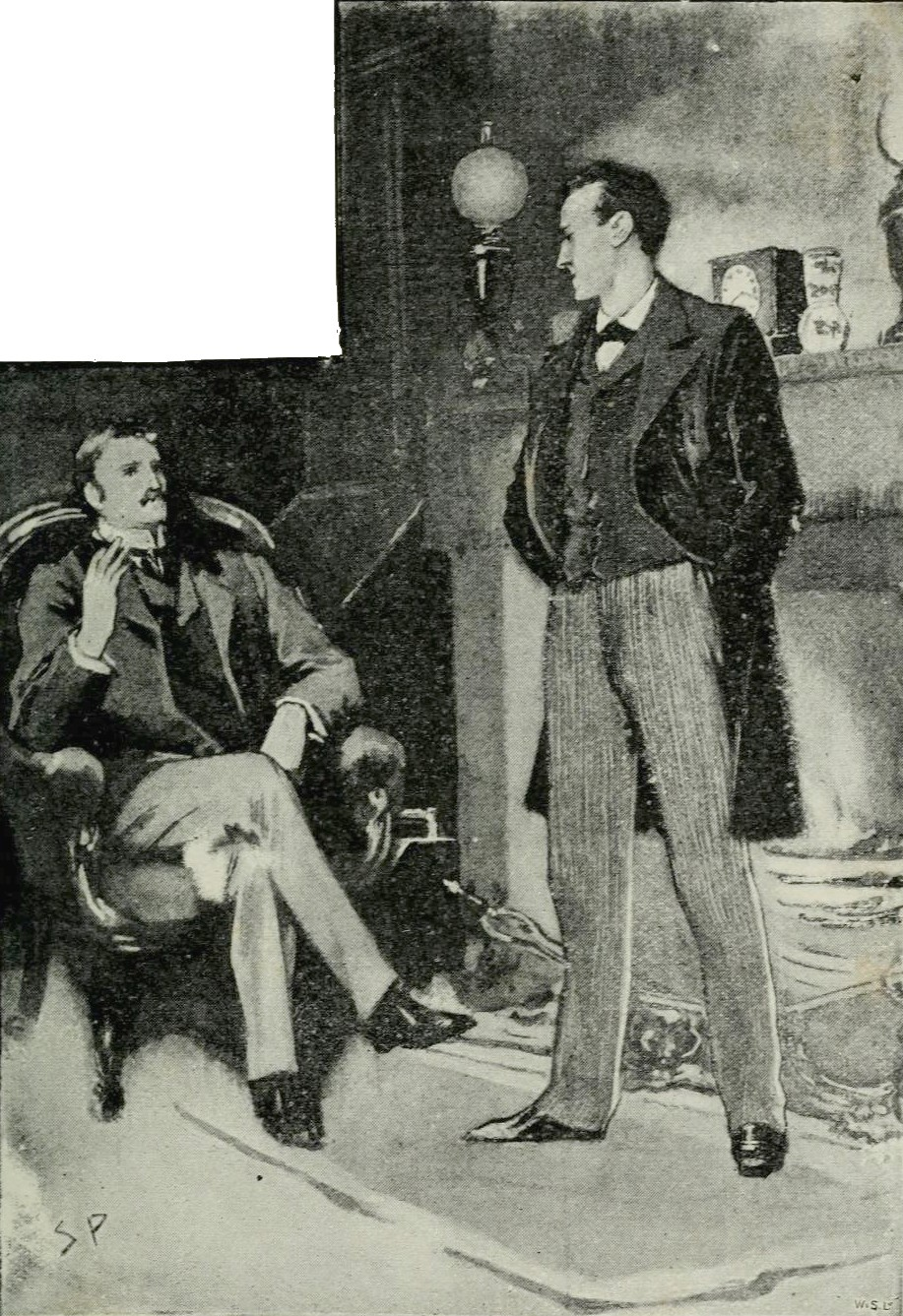 Illustration of the short story A Scandal in Bohemia, which appeared in The Strand Magazine in July, 1891. This illustration appeared on page 62, and is captioned "THEN HE STOOD BEFORE THE FIRE."